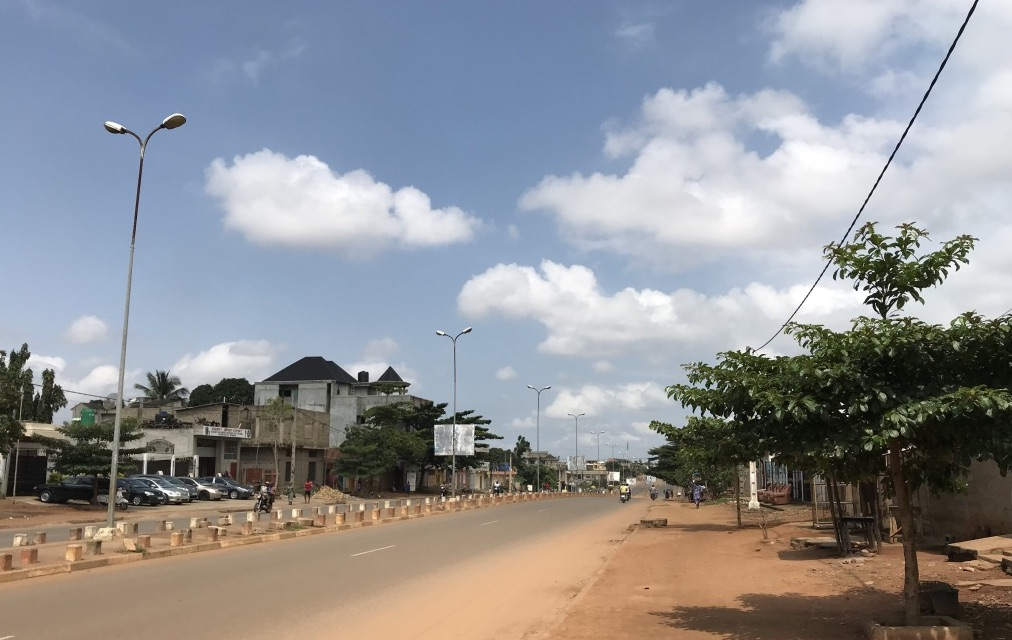 Porto-Novo downtown